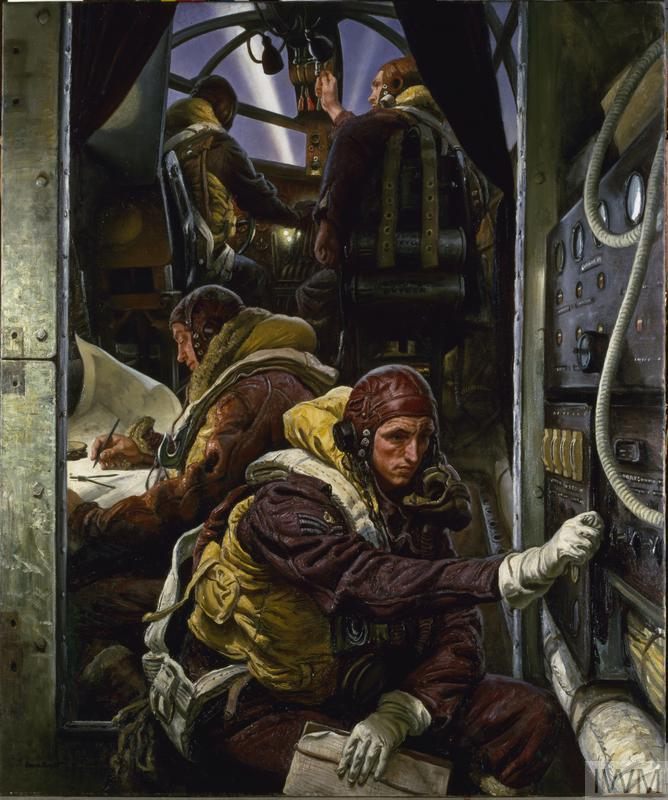 The interior of a Stirling bomber with a four man crew. Two pilots sit in the cockpit to the rear of the picture, the navigator with maps is to the centre and the flight engineer is in the foreground